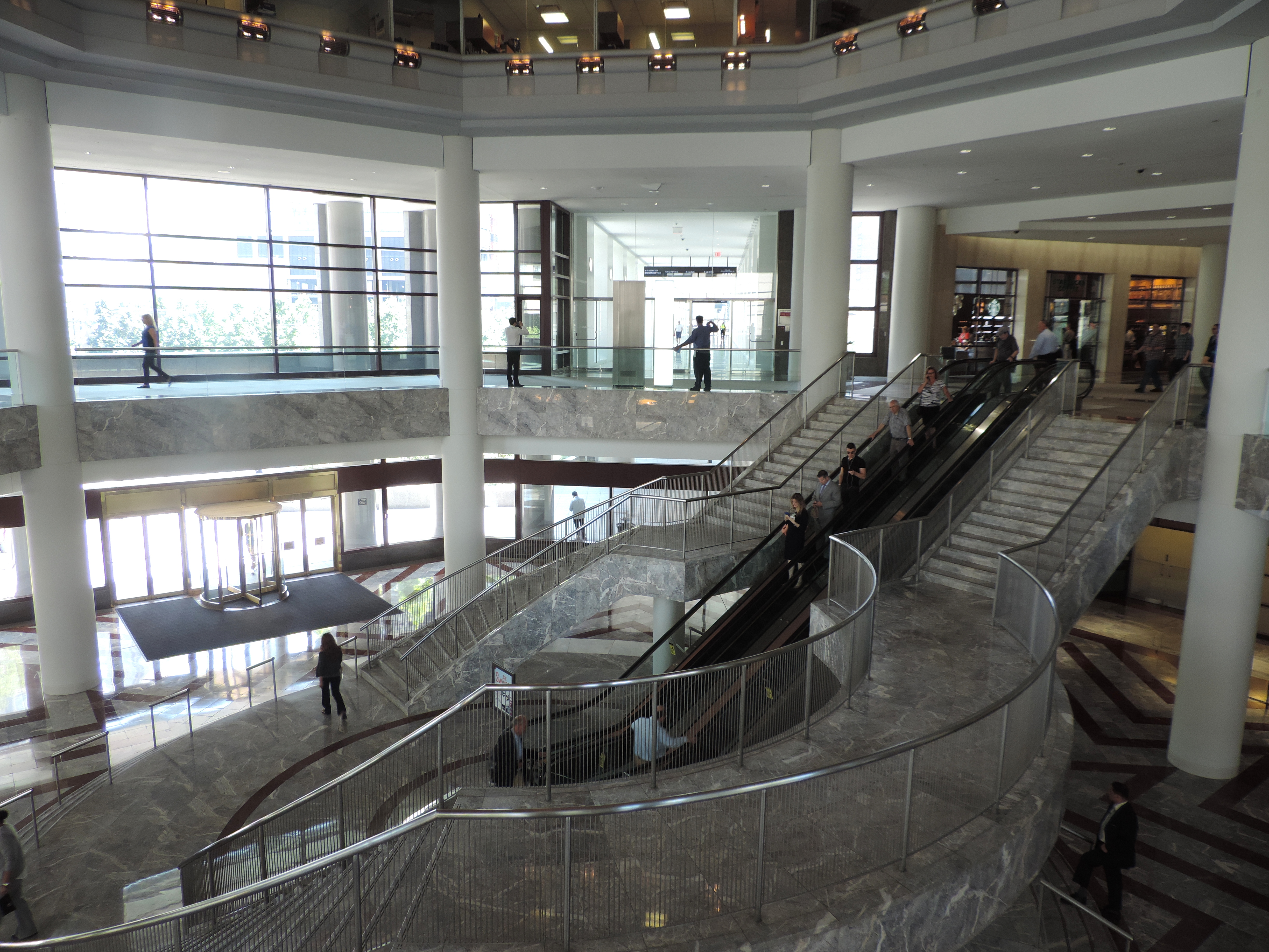 Looking east and down at 200 Liberty Street stair, and Liberty Street Bridge on opening day.